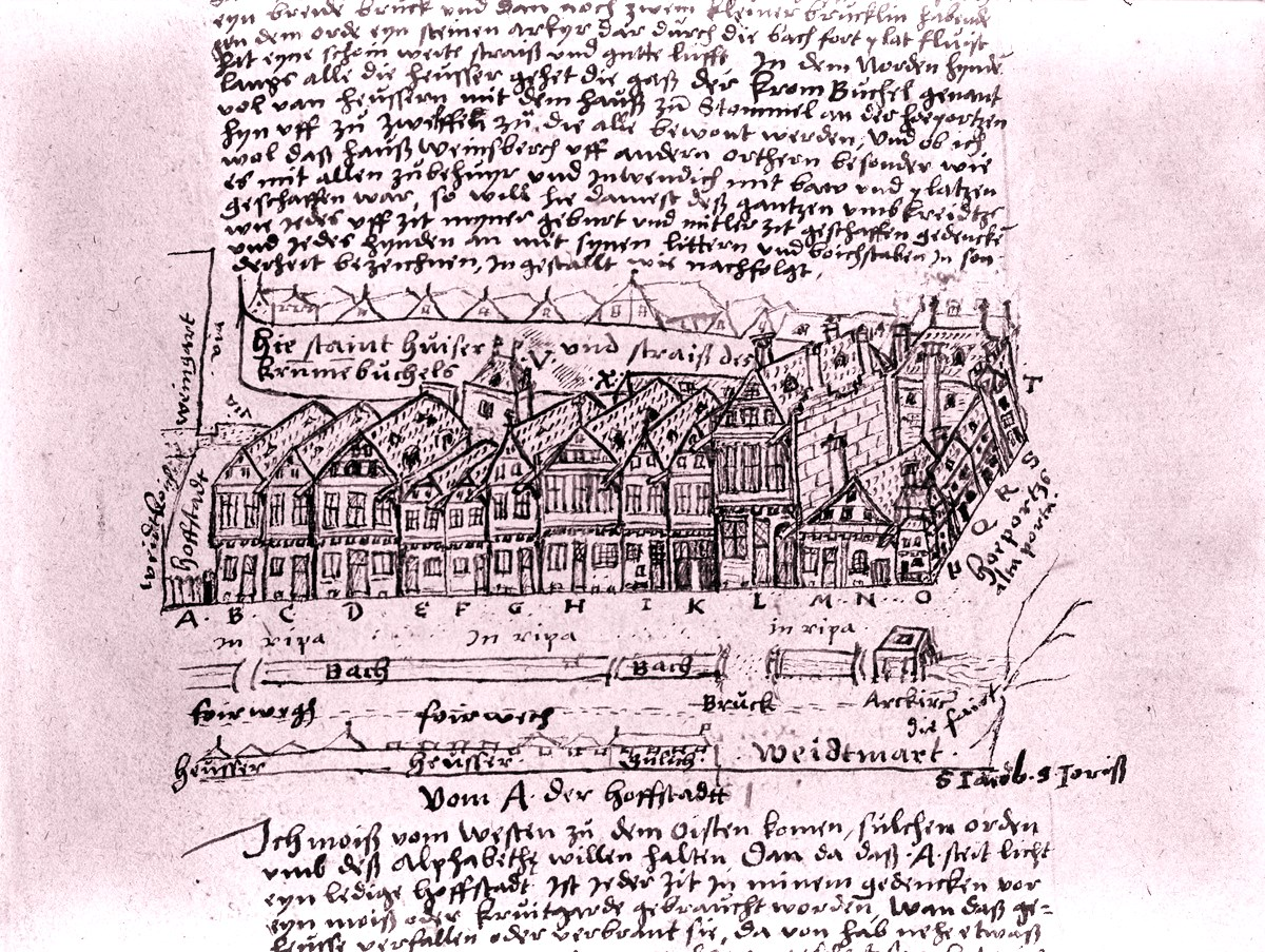 Hermann von Weinsberg +1597, aus Chronicen und Darstellungen 50. Weinsberg II., 1576